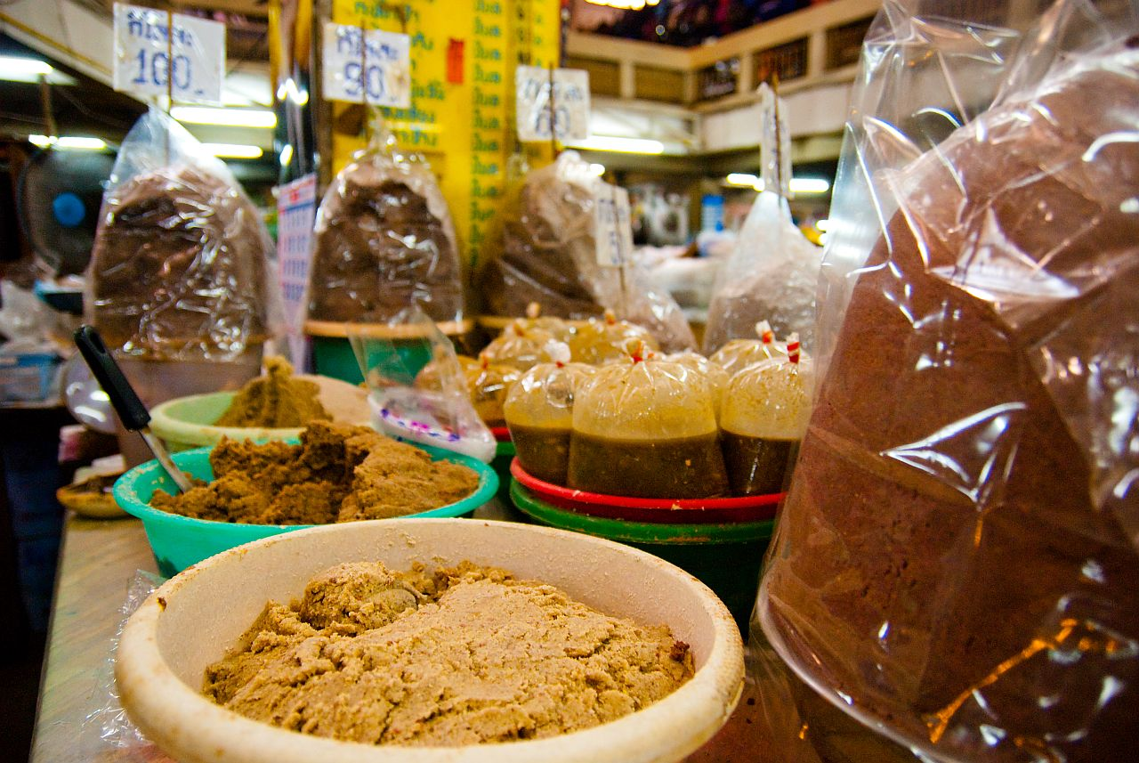 Baskets and mounds of different types of kapi (Thai shrimp paste) and tightly sealed bags of pla raa (a thicker type of fish sauce) at Warorot market in Chiang Mai, Thailand.